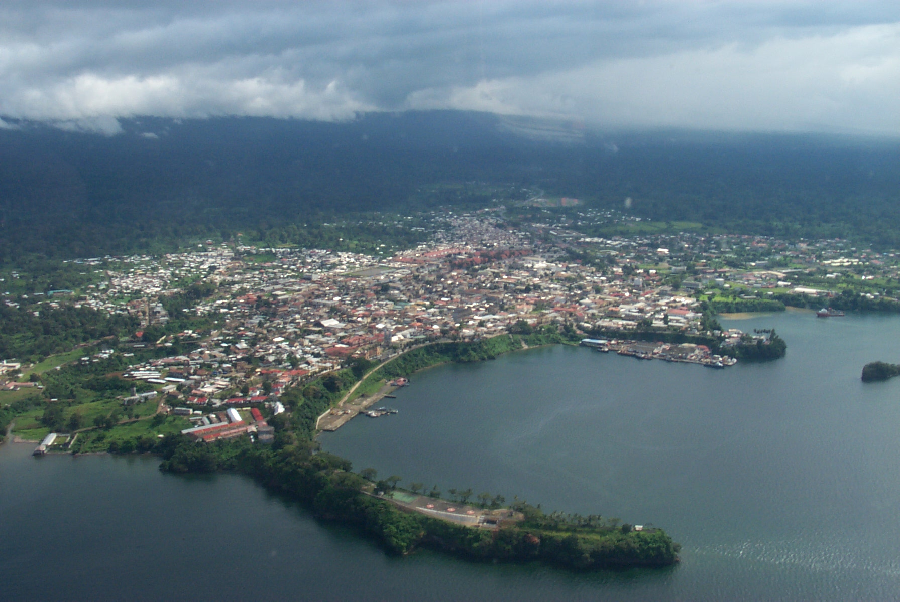 I have taken this from the air when flying over the city of Malabo